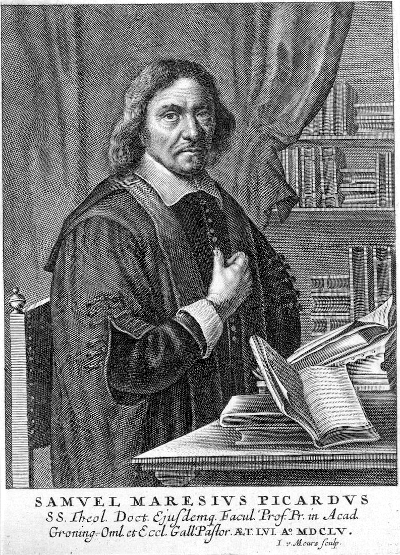 Samuel Maresius (1599-1673) 18.3 x 13.3 cm 1655 text: SAMUEL MARESIUS PICARDUS S.S. Theol. Doct. Ejusdemq. Facul. Prof. Pr. in Acad. Groning-Oml. et Eccl. Gall. Pastor AET.LVI.Ao.MDCLV I.v.Meurs sculp. Translation: Samuel Des Marets from Picardy, Doctor in the holy theology (Sacrosanctae Theologiae Doctor) or Doctor in the theology of the holy scripture (Sacrae Scripturae Doctor), professor in the same Faculty and Prof. Primarius at the University of Groningen and Ommelanden. Pastor of the Walloon Church. Age 51, year 1655, engraving by J. van Meurs.